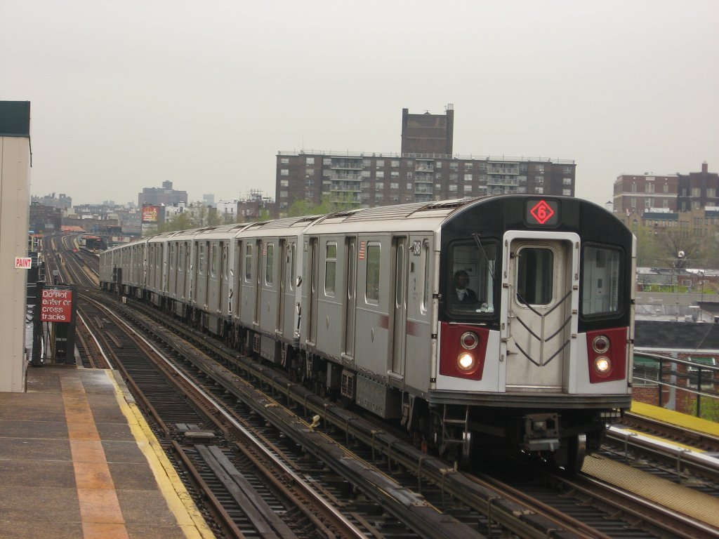 A 6 Express train running express on the Westchester Avenue line through the St. Lawrence Avenue Station.